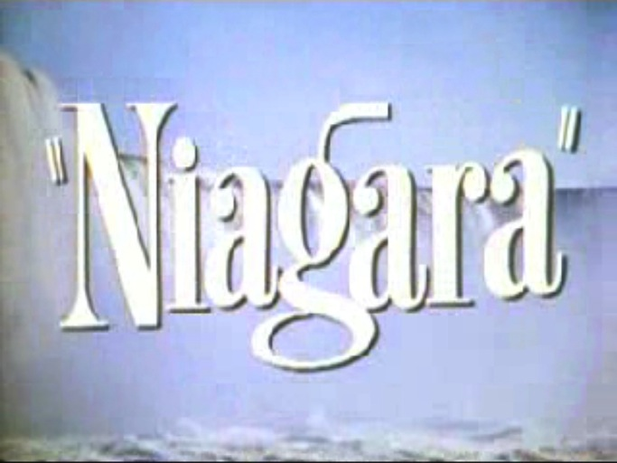 The opening title from the theatrical trailer of the 1953 film Niagara directed by Henry Hathaway.